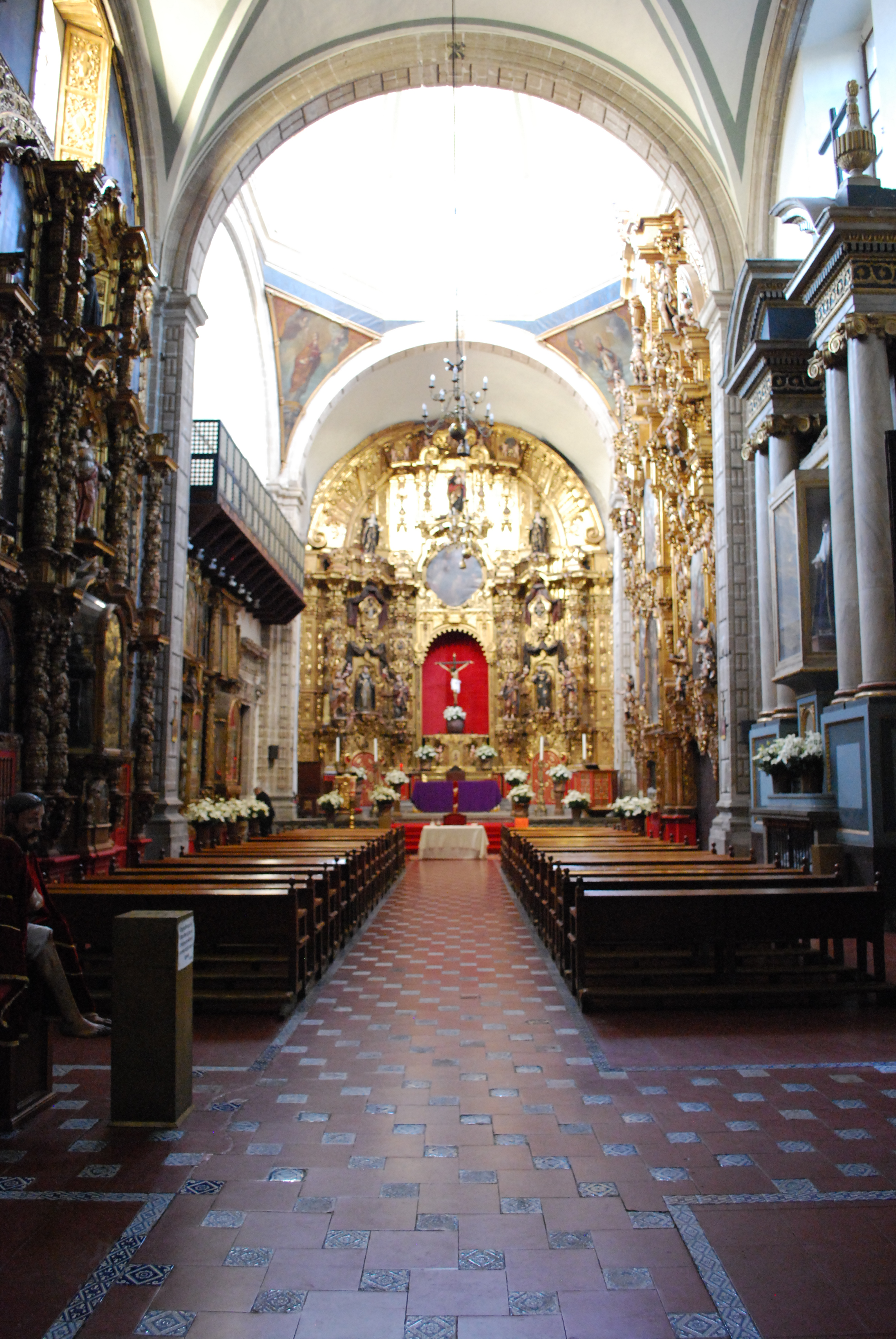 Nave of the Regina Coeli Church in Mexico City